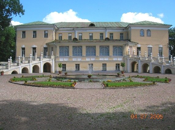 Governor's Palace in Yaroslavl (as seen from the garden)